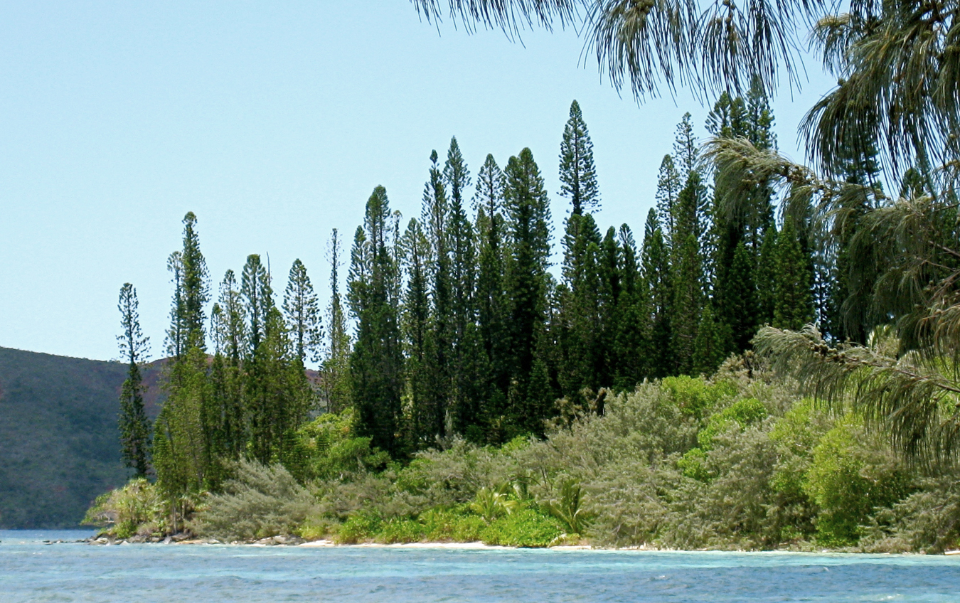 Araucaria columnaris, Prony, Îlot Casy, southern New Caledonia.